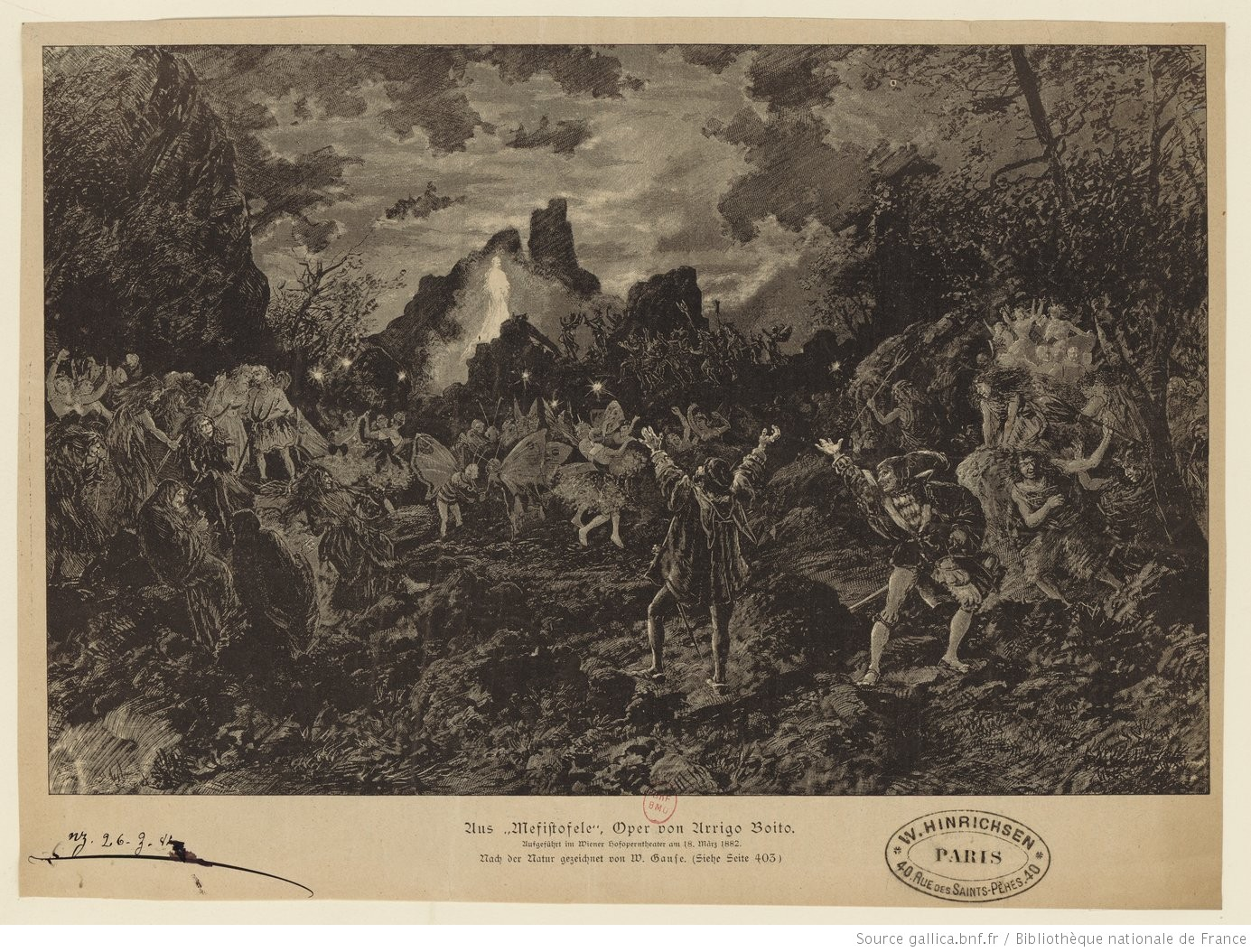 From "Mefistofele", opera by Arrigo Boito. Performed at the Vienna Court Opera Theater on March 18, 1882